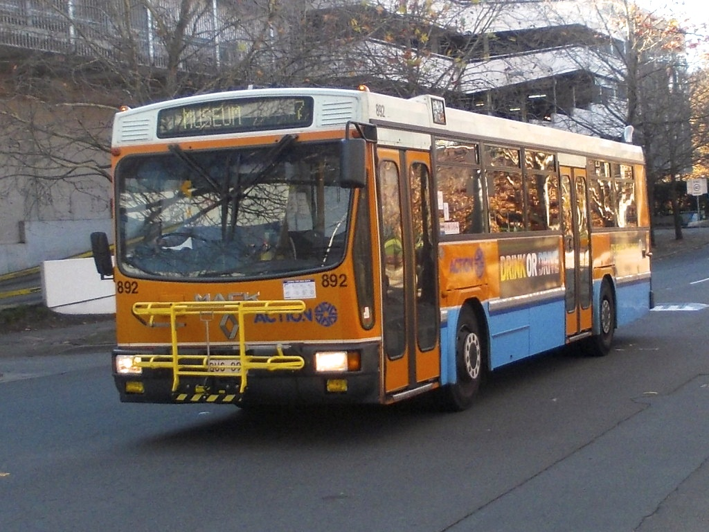 ACTION Bus 892 Ansair (MkII) bodied Renault PR100-2. Photographed in Canberra, Australia